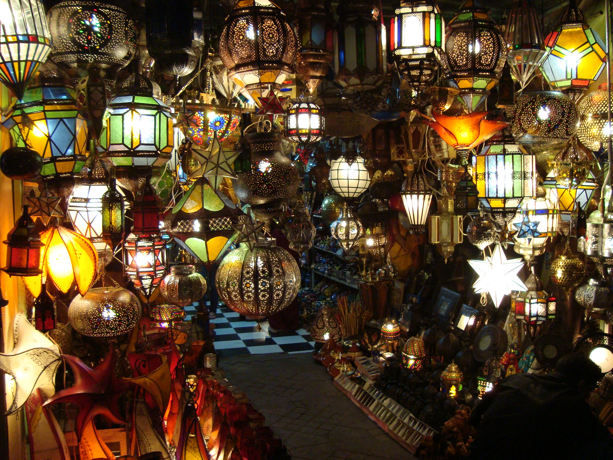 This photo was taken in Marrakesh, Morocco, in the famous market of Place Djemaa el Fna, in May 2009.